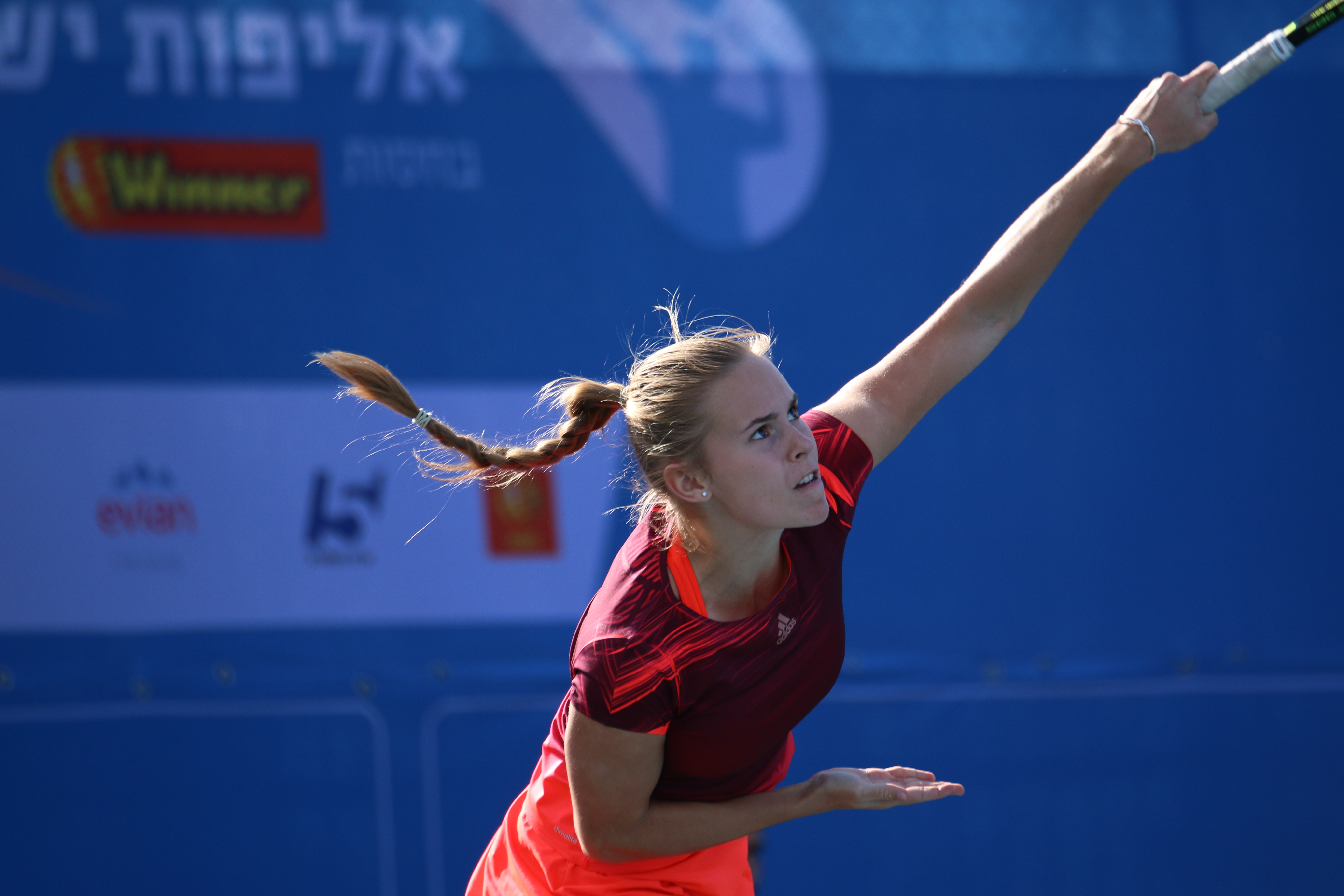 Israel tennis championship 2015